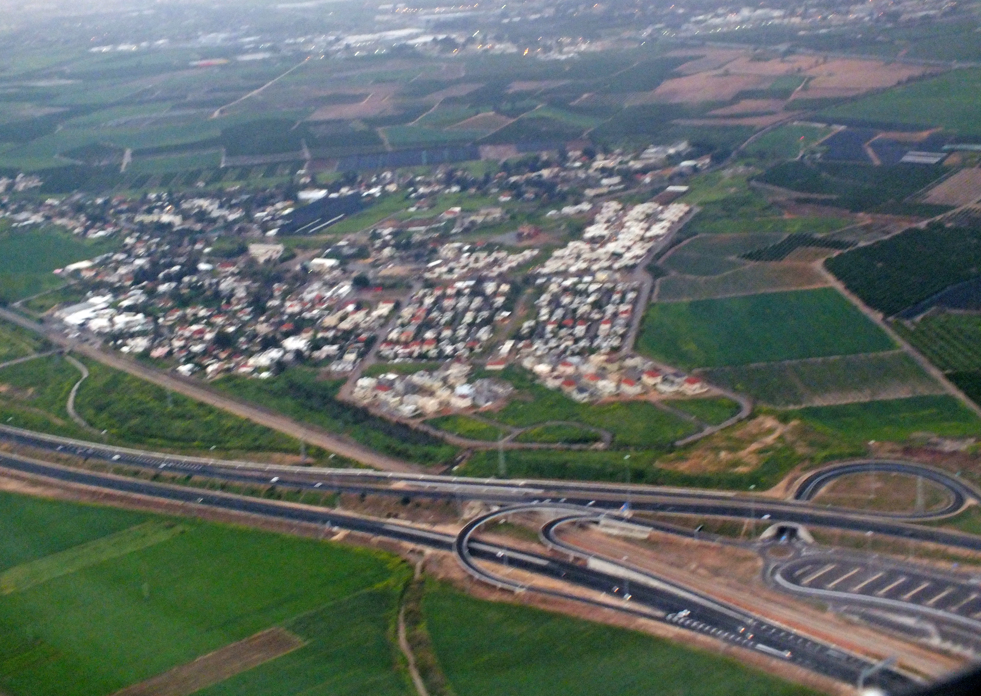 Kfar Chabad (or Kfar Habad; כפר חב"ד) at the outskirts of Gush Dan, featuring the newly-constructed interchange serving the Tel-Aviv Rapid Lane on the A1.